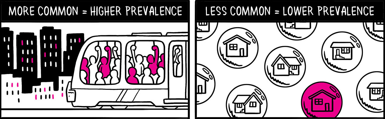 Siouxsie Wiles & Toby Morris